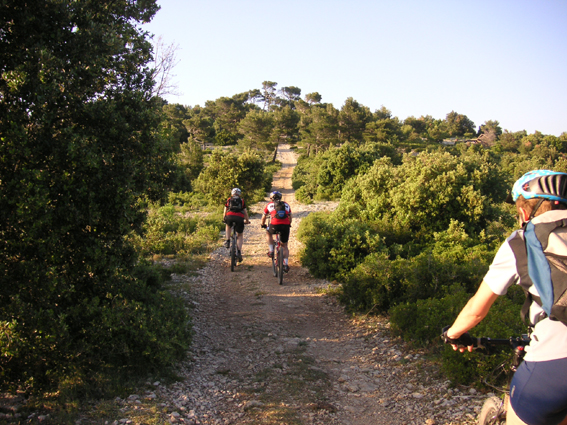 Mountain bike trail riding in the South of France.